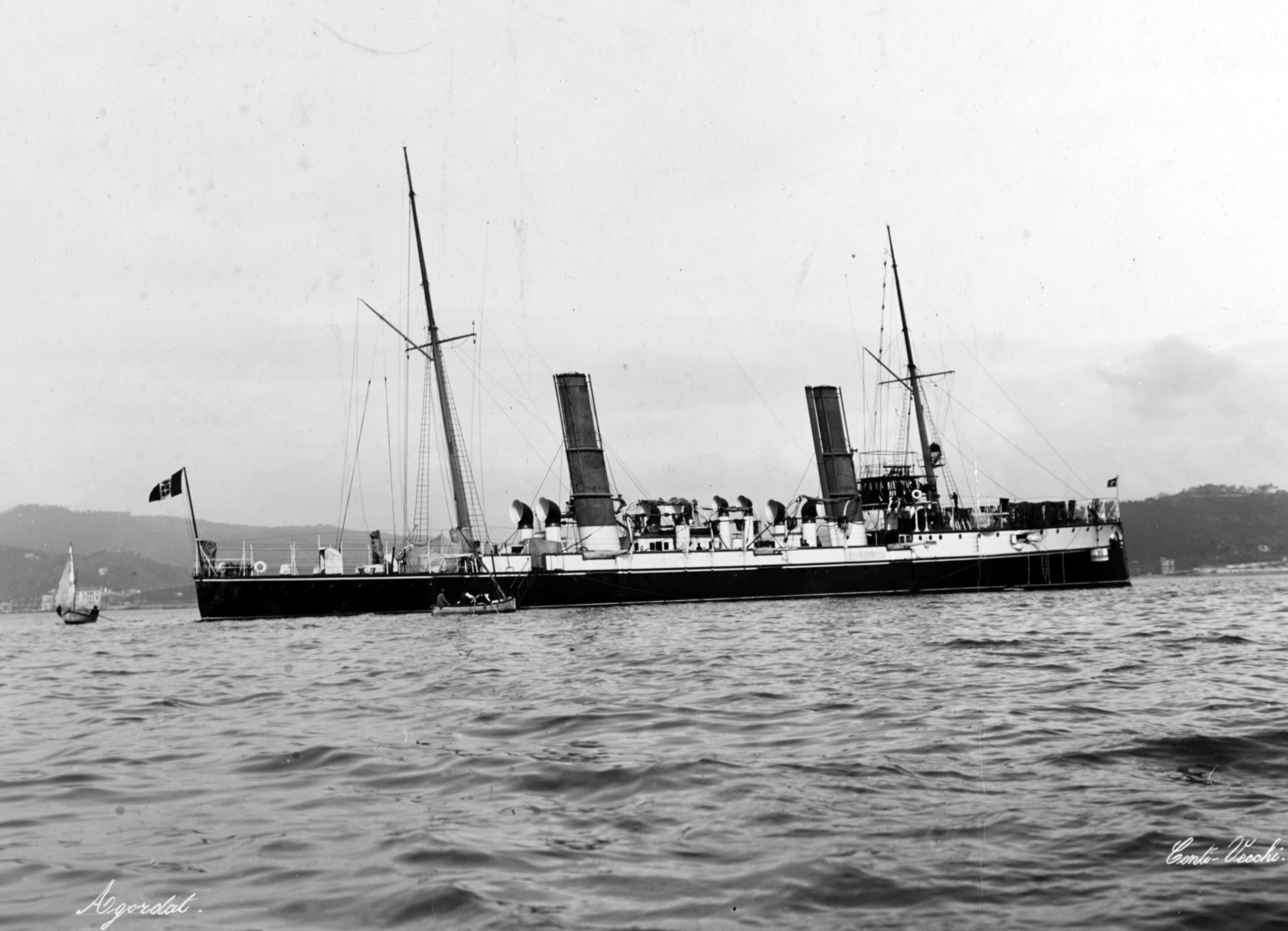 Title: AGORDAT (Italian Torpedo gunboat, 1899-1923) Caption: Photographed soon after completion.